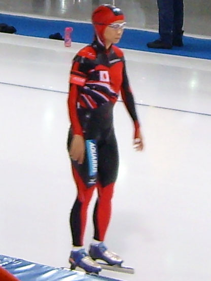 Shihomi Shinya (JPN) before 1000 meters world cup speedskating race in Berlin, Germany.